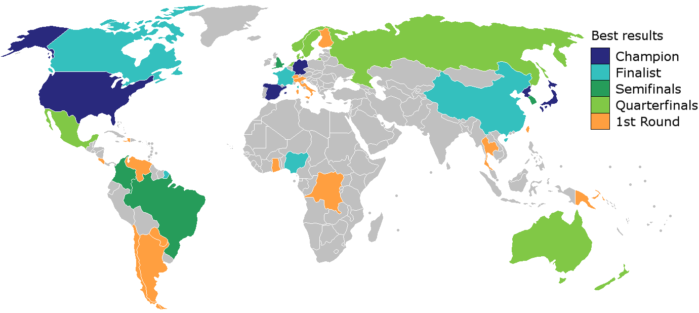 Map of Womens World Cup U-20 countries best results.